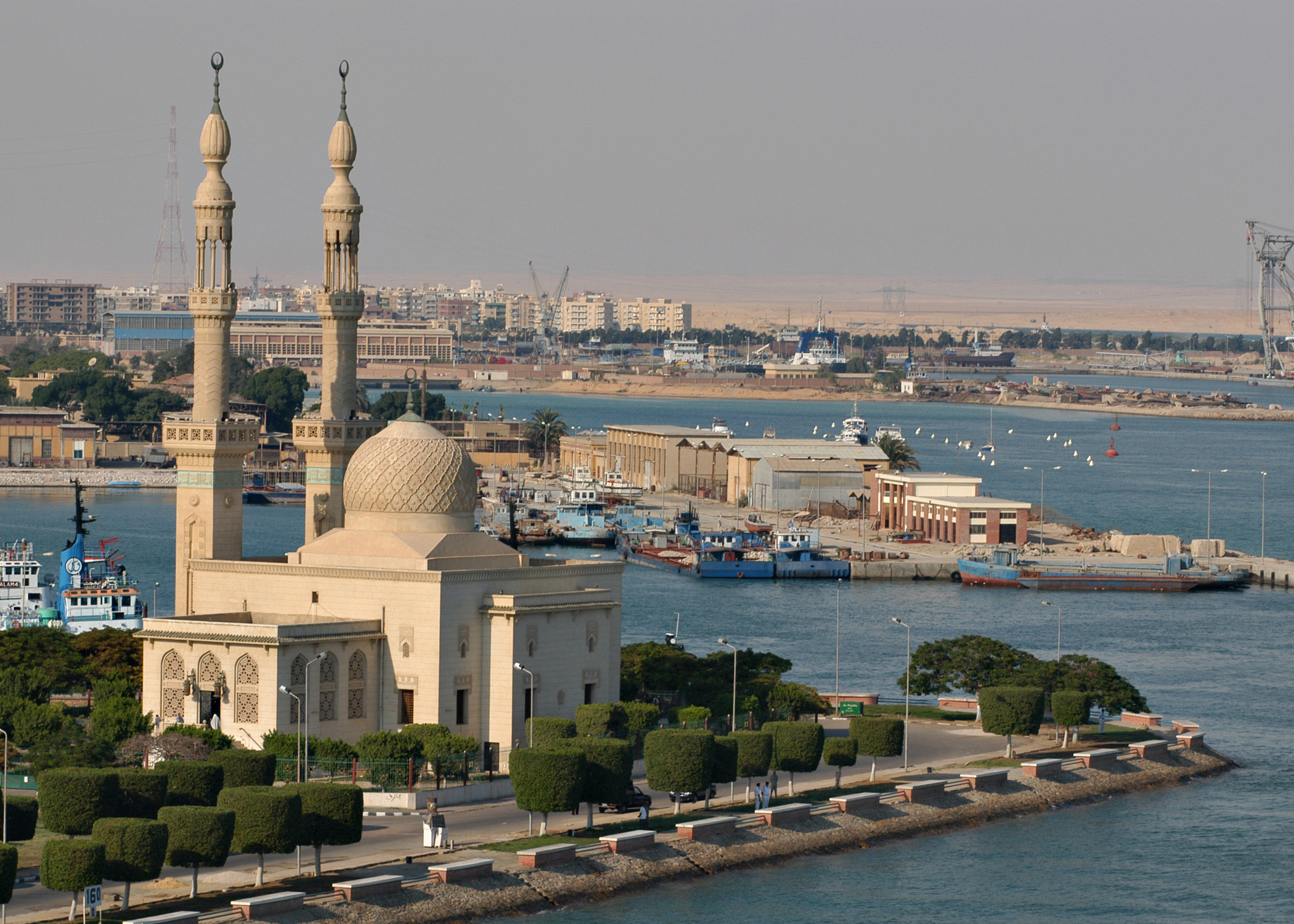 A mosque on the western Bank of the Suez Canal, Port Said, Egypt. The phtotgraph was taken from the U.S. Navy aircraft carrier USS Enterprise (CVN-65) while transiting the Suez Canal to the Red Sea.